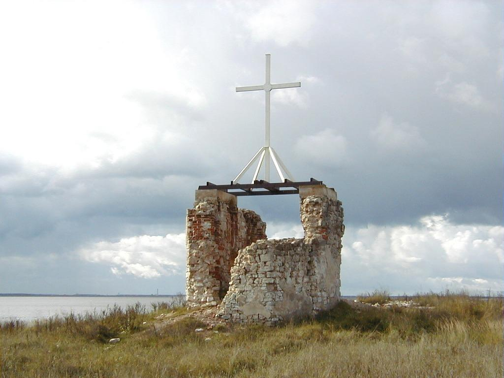 Saint George Lutheran Church ruins along Daugava River near Salaspils